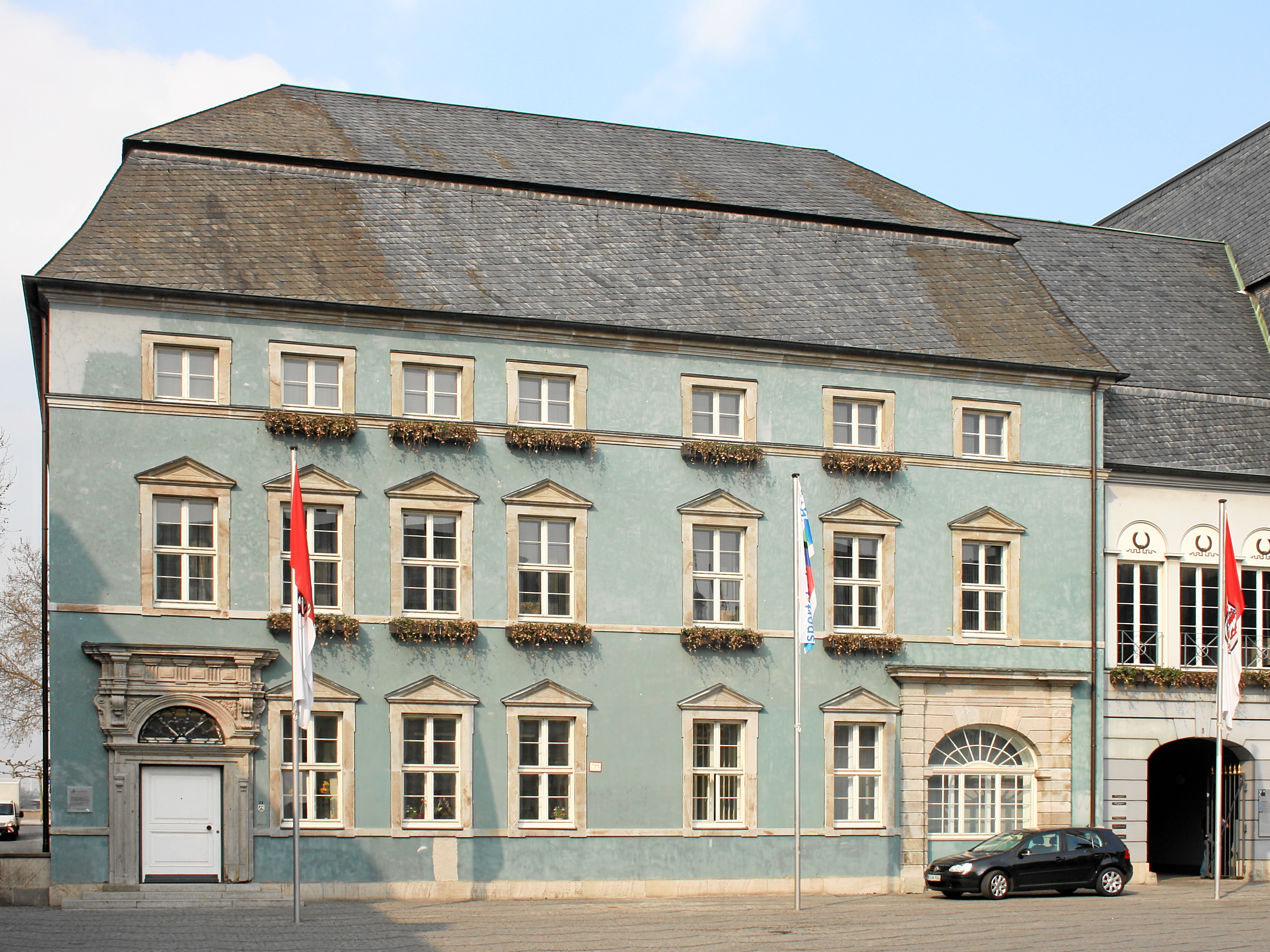 Düsseldorf, Germany. House of the former sculptor Gabriel de Grupello at the market square.